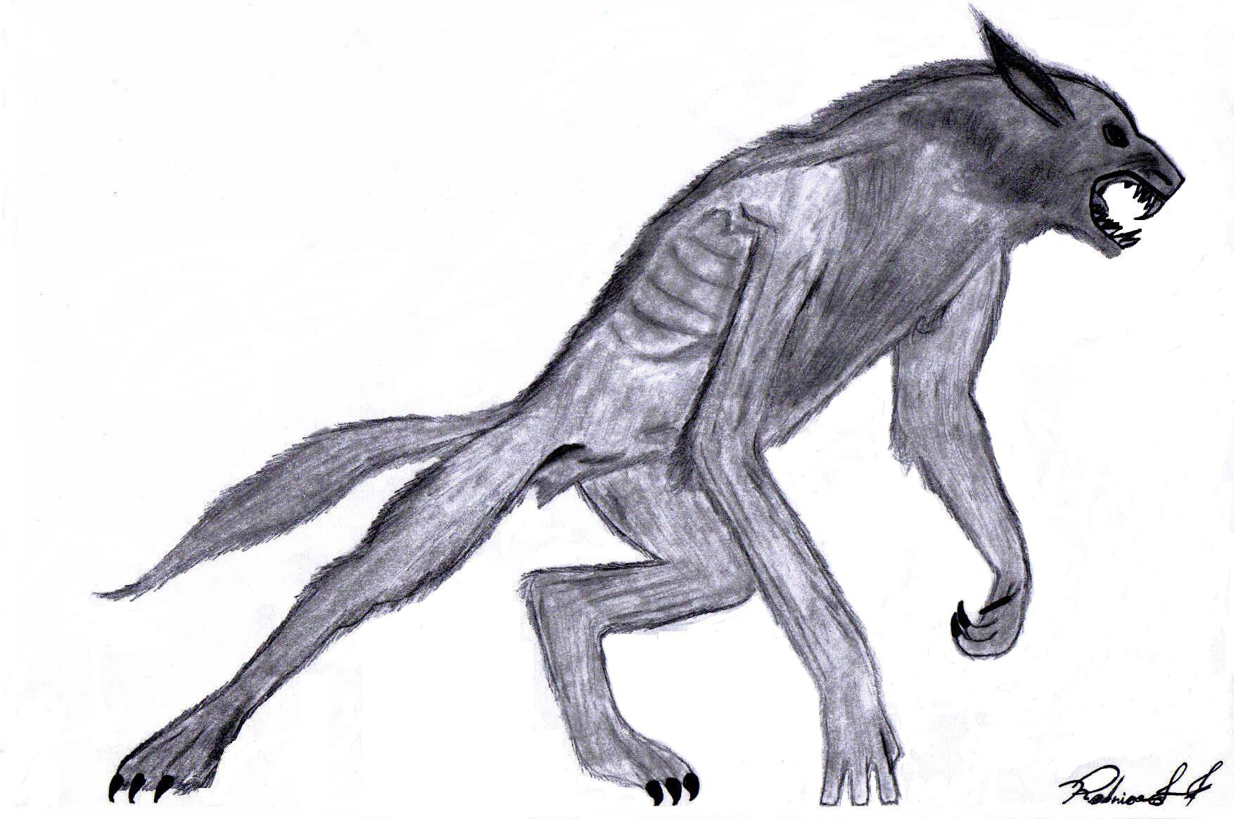 Werewolf, by Rodrigo Ferrarezi